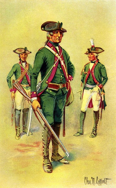 Hessians jaeger (American revolutionary war)